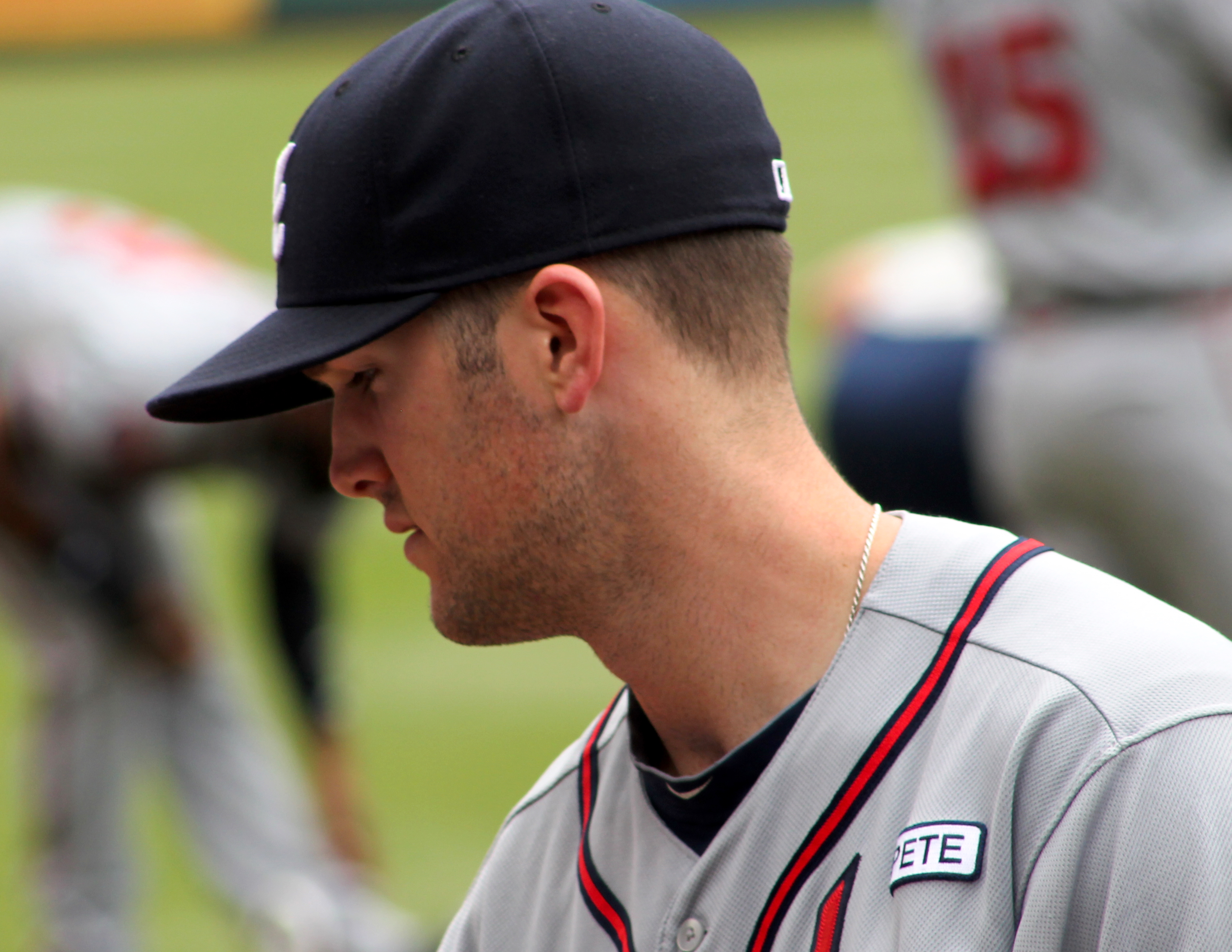 Professional baseball player Alex Wood signs autographs before a game in Texas in September 2014.